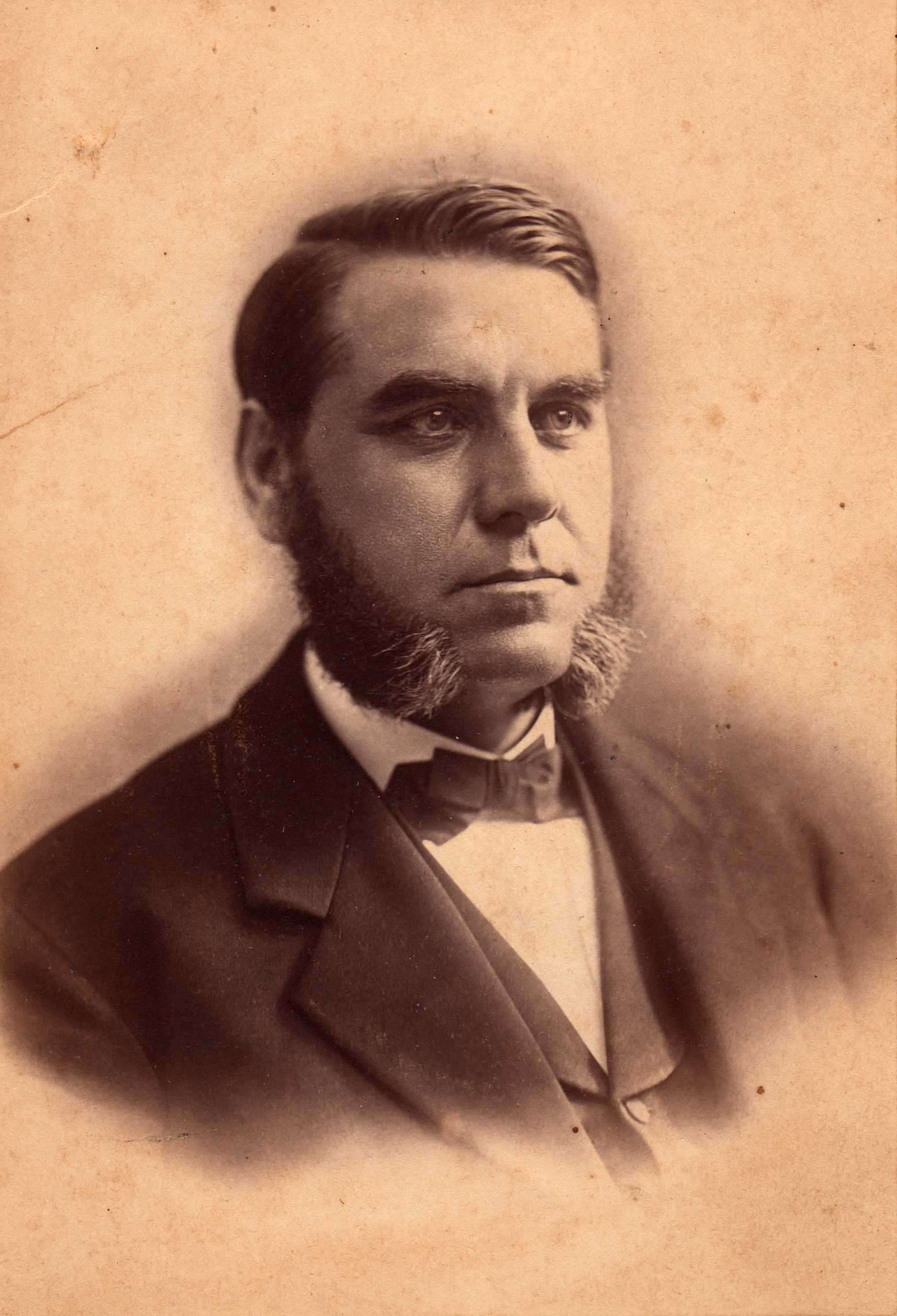 CDV portrait of Miles Justice Knowlton, stamped on reverse J. H. Abbott, Photographer, Jun 10 1871 Chicago, 121 S Clark St.